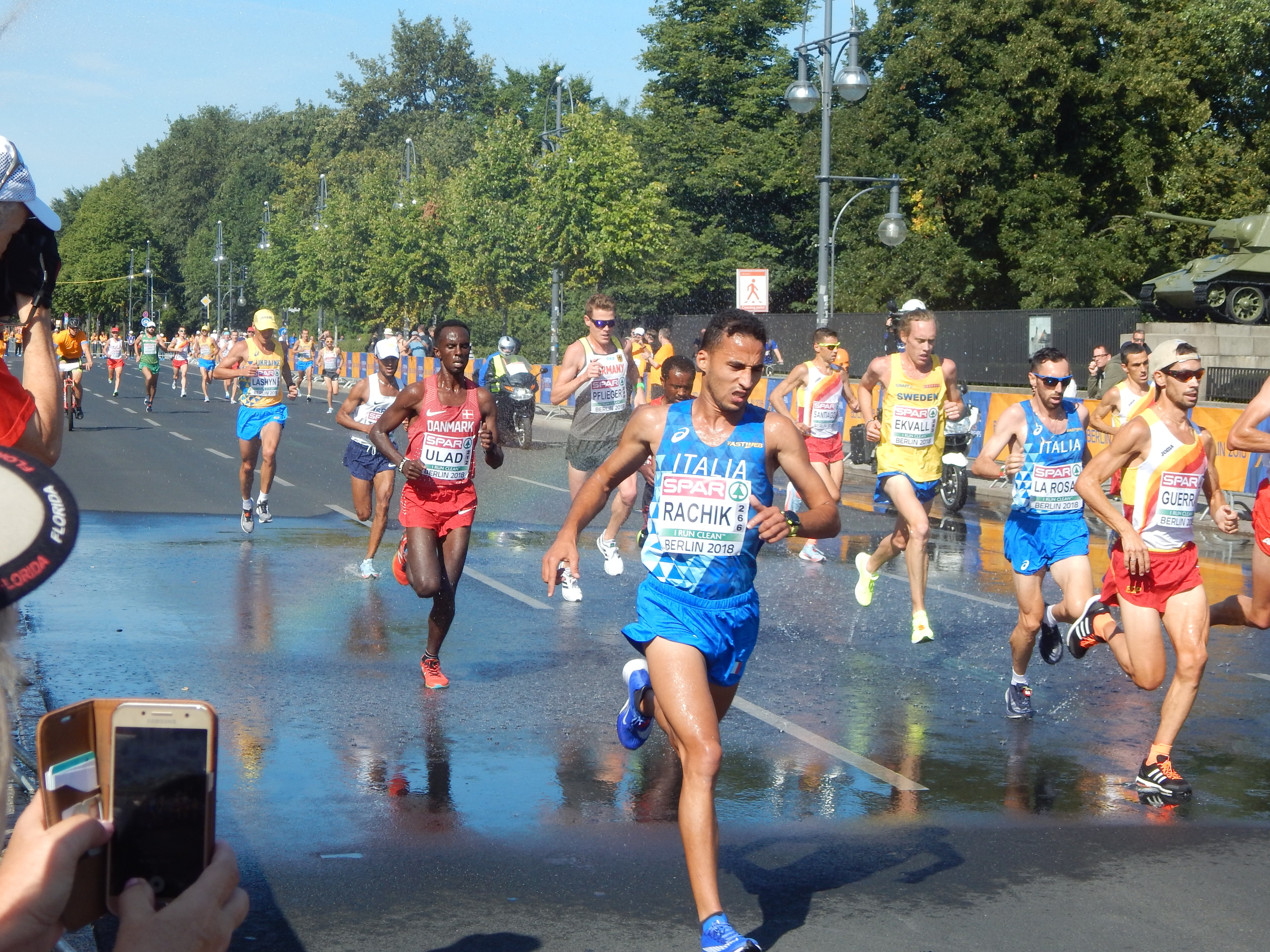 European Championships 2018 Marathon at Straße des 17. Juni